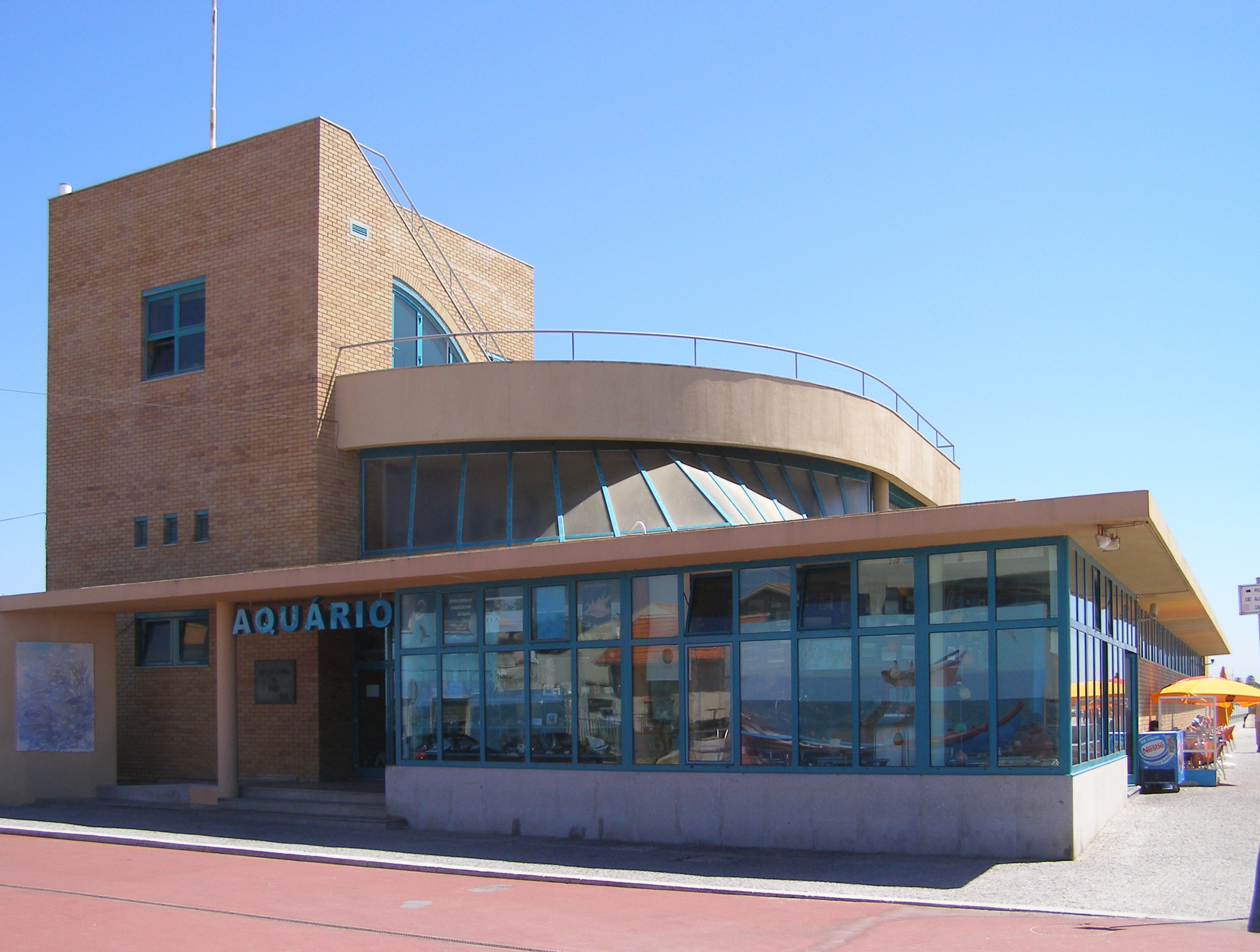 Façade of Estação Litoral da Aguda, a maritime research station in Northern Portugal.